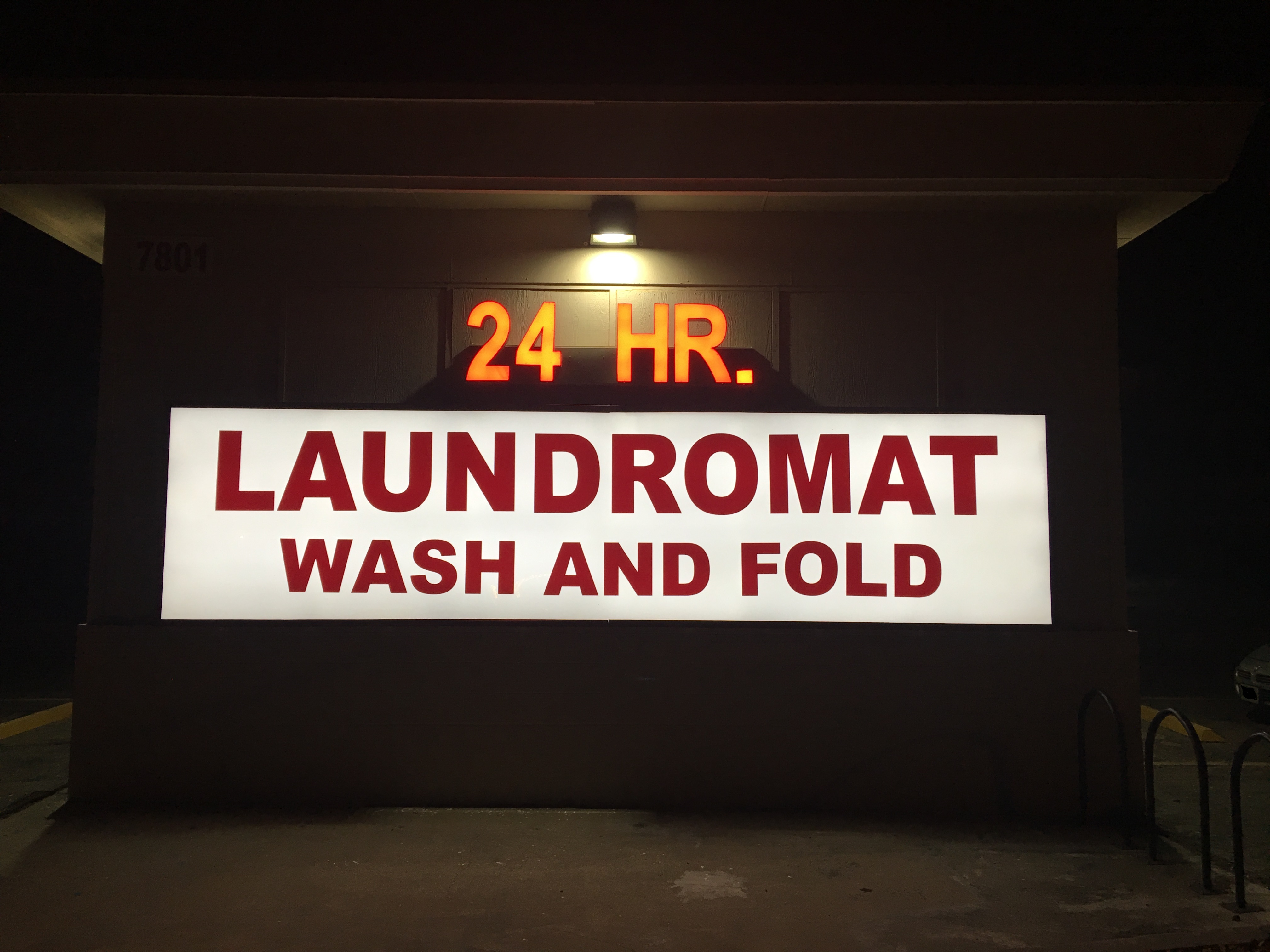 Photograph of a laundromat sign advertising for wash and fold services in El Paso, Texas.